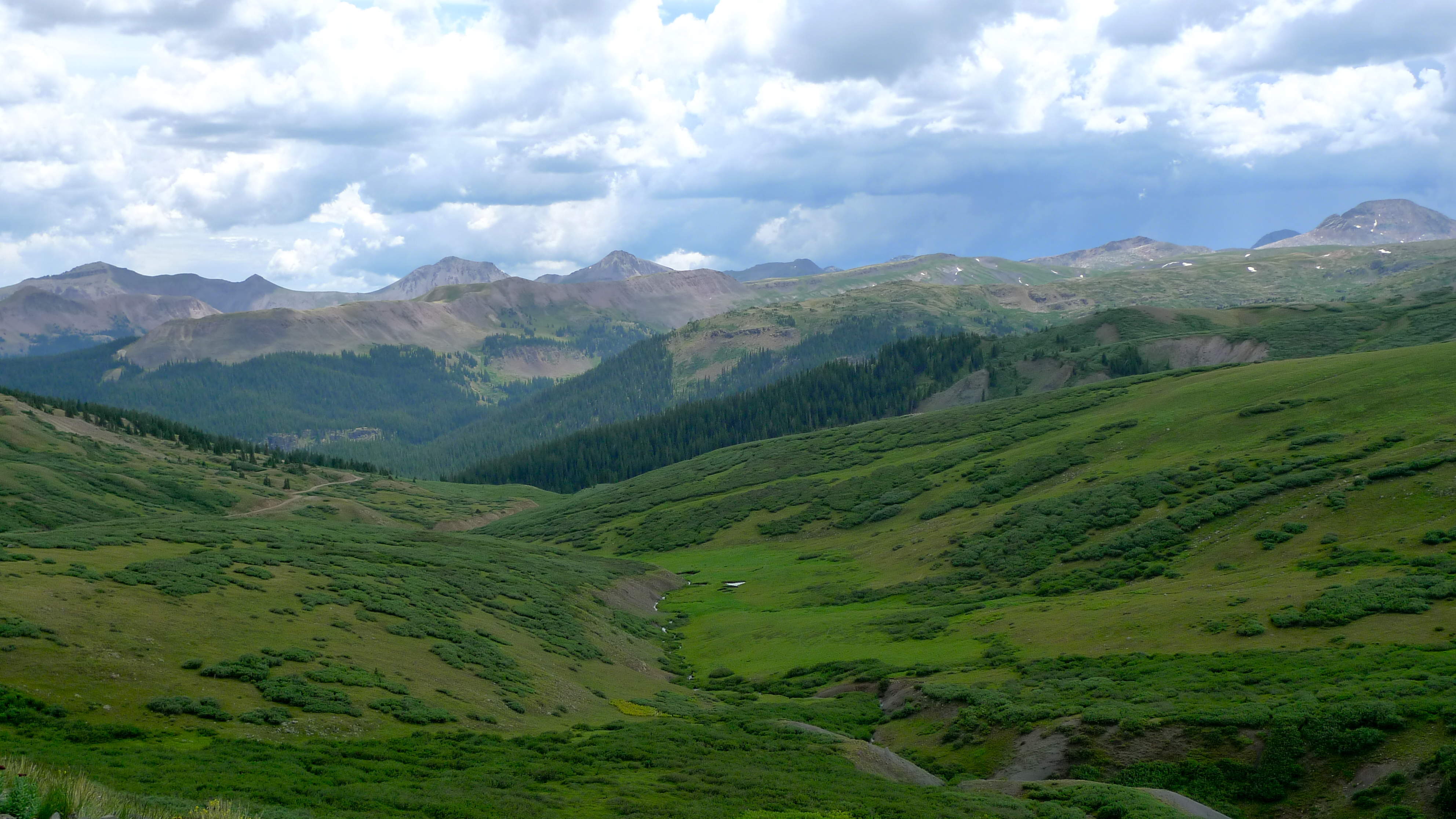 Stony Pass road. The scenery is nothing short of spectacular along this old wagon road over Stony Pass (12,588 feet), at the edge of Weminuche Wilderness. It fell into disuse after 1882, when the Denver and Rio Grande Railroad linked Durango and Silverton. On the east side, it traverses drainages that form the headwaters of the Rio Grande River, which you can ford on the Beartown Road. You’ll see many old mining relics. Wildflowers abound early- to mid-summer.